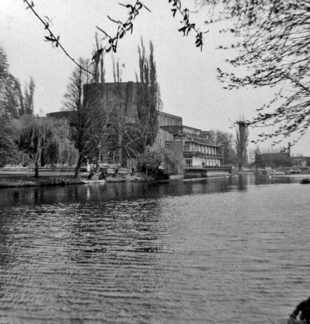 Royal Shakespeare Theatre, Stratford-on-Avon, Warwickshire, taken 1965 Looking across the River Avon towards the Royal Shakespeare Theatre.